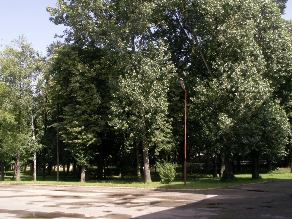 Gubernija park in Šiauliai, Lithuania